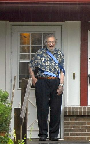 Dennis at the age of 89 (4th of July 2009).